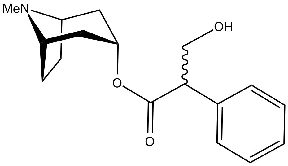 Molecular structure of Atropine